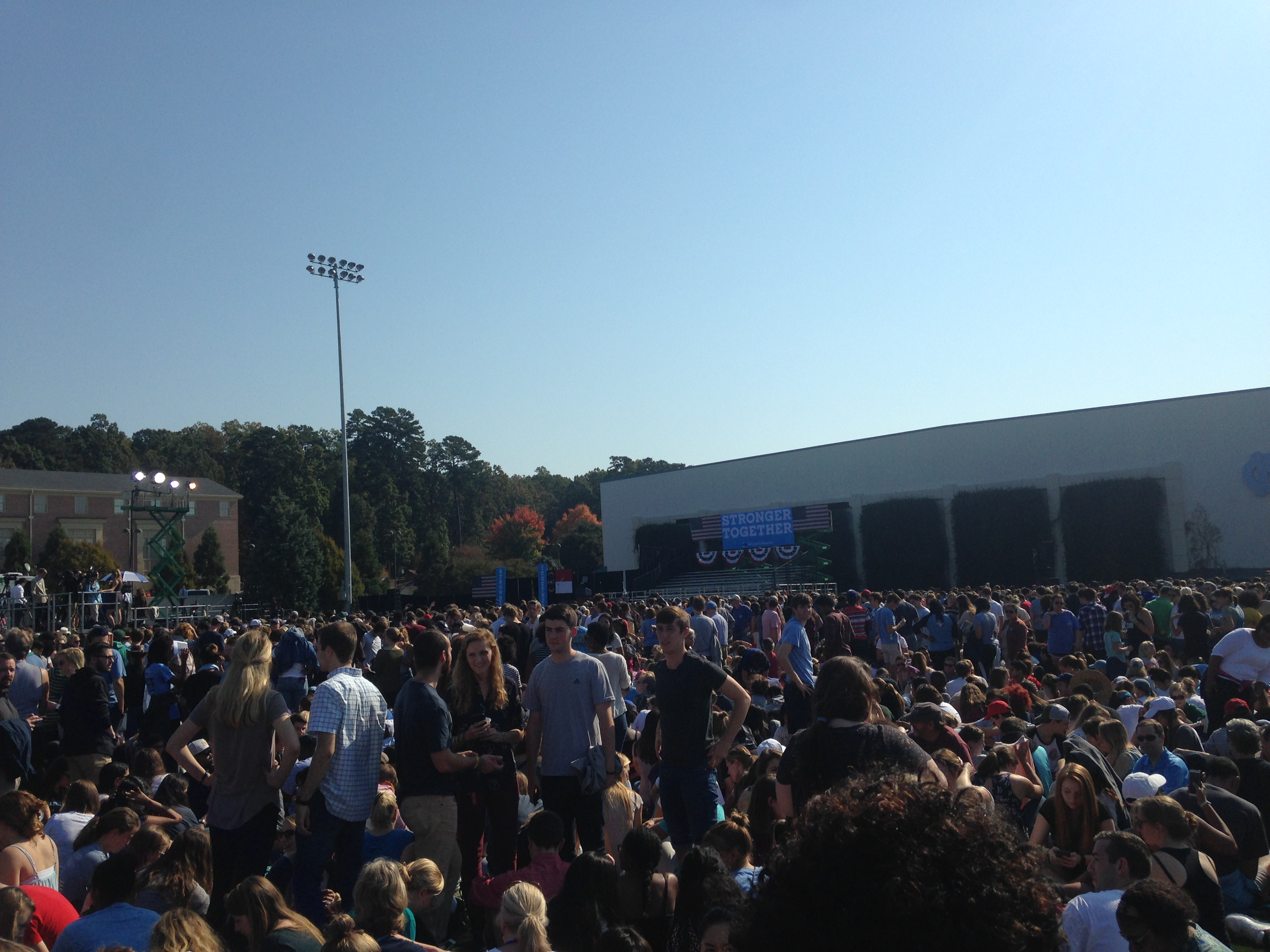 Before Obama came to speak at the UNC-CH campus days before the 2016 election, crowds gathered.